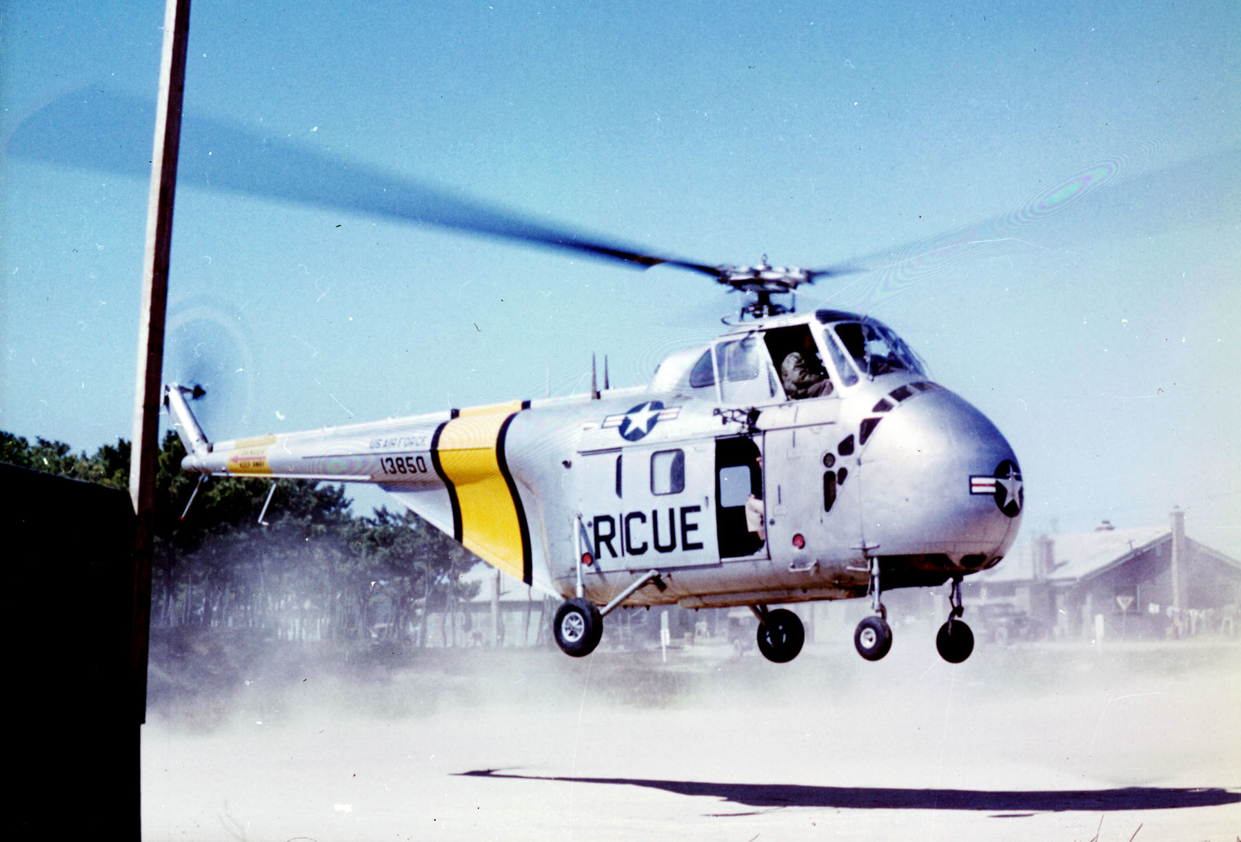 A U.S. Air Force Sikorsky SH-19A Search-and-Rescue helicopter (s/n 51-3850) in Korea, circa 1952.